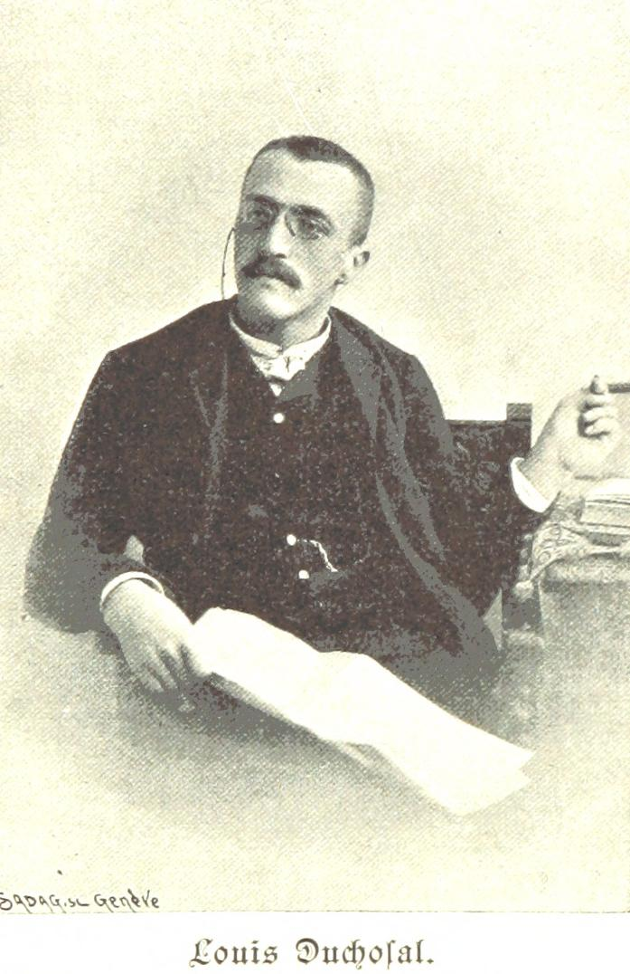 Louis Duchosal Image taken from: Title: "Die Schweiz im neunzehnten Jahrhundert. Herausgegeben von schweizerischen Schriftstellern unter Leitung von P. Seippel" Author: SEIPPEL, Paul. Shelfmark: "British Library HMNTS 9305.h.2." Volume: 02 Page: 393 Place of Publishing: Lausanne Date of Publishing: 1899 Issuance: monographic Identifier: 003330970 Explore: Find this item in the British Library catalogue, 'Explore'. Download the PDF for this book (volume: 02) Image found on book scan 393 (NB not necessarily a page number) Download the OCR-derived text for this volume: (plain text) or (json) Click here to see all the illustrations in this book and click here to browse other illustrations published in books in the same year.